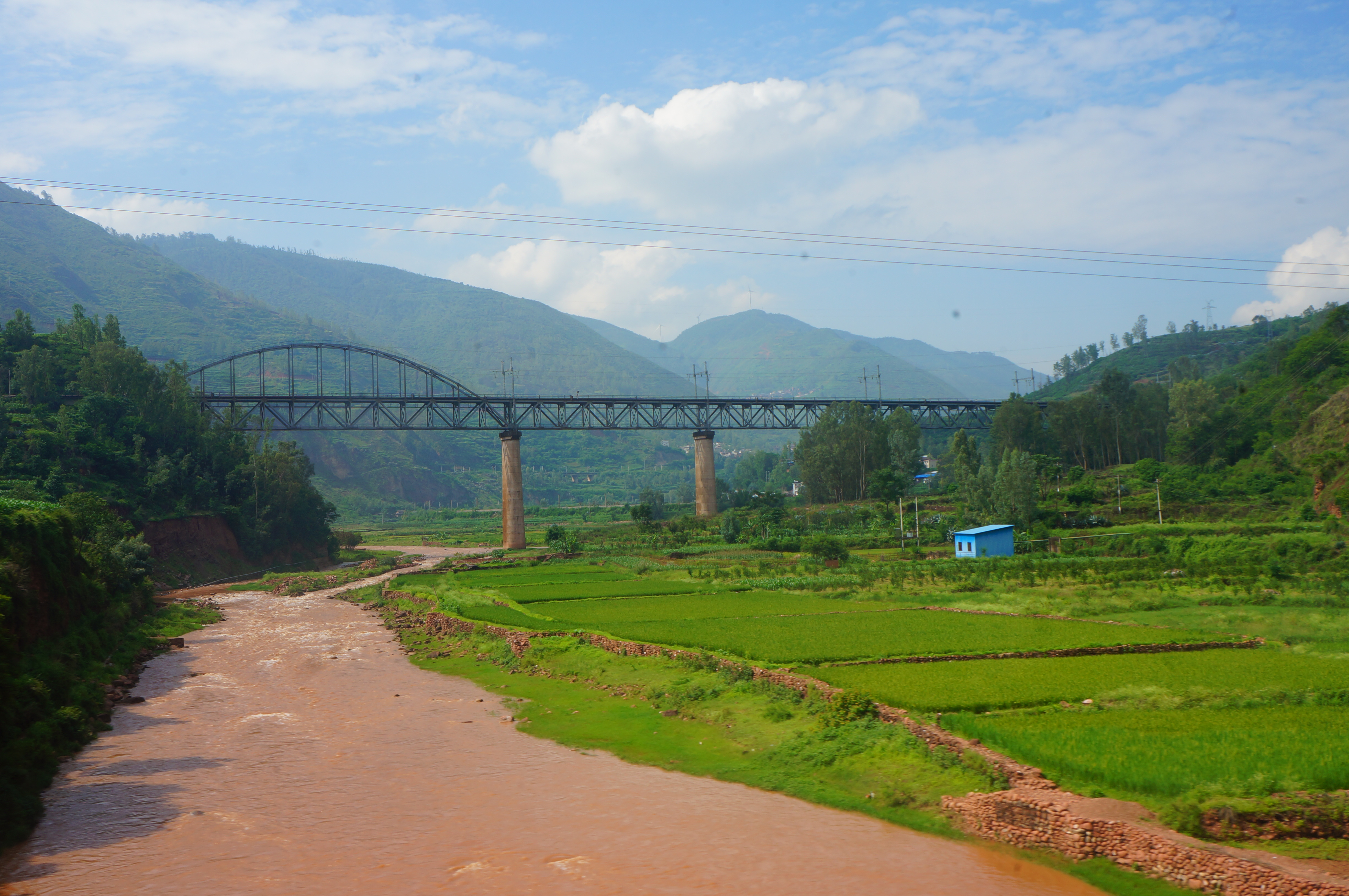 Taken on the Fala Longchuan River Railway Bridge